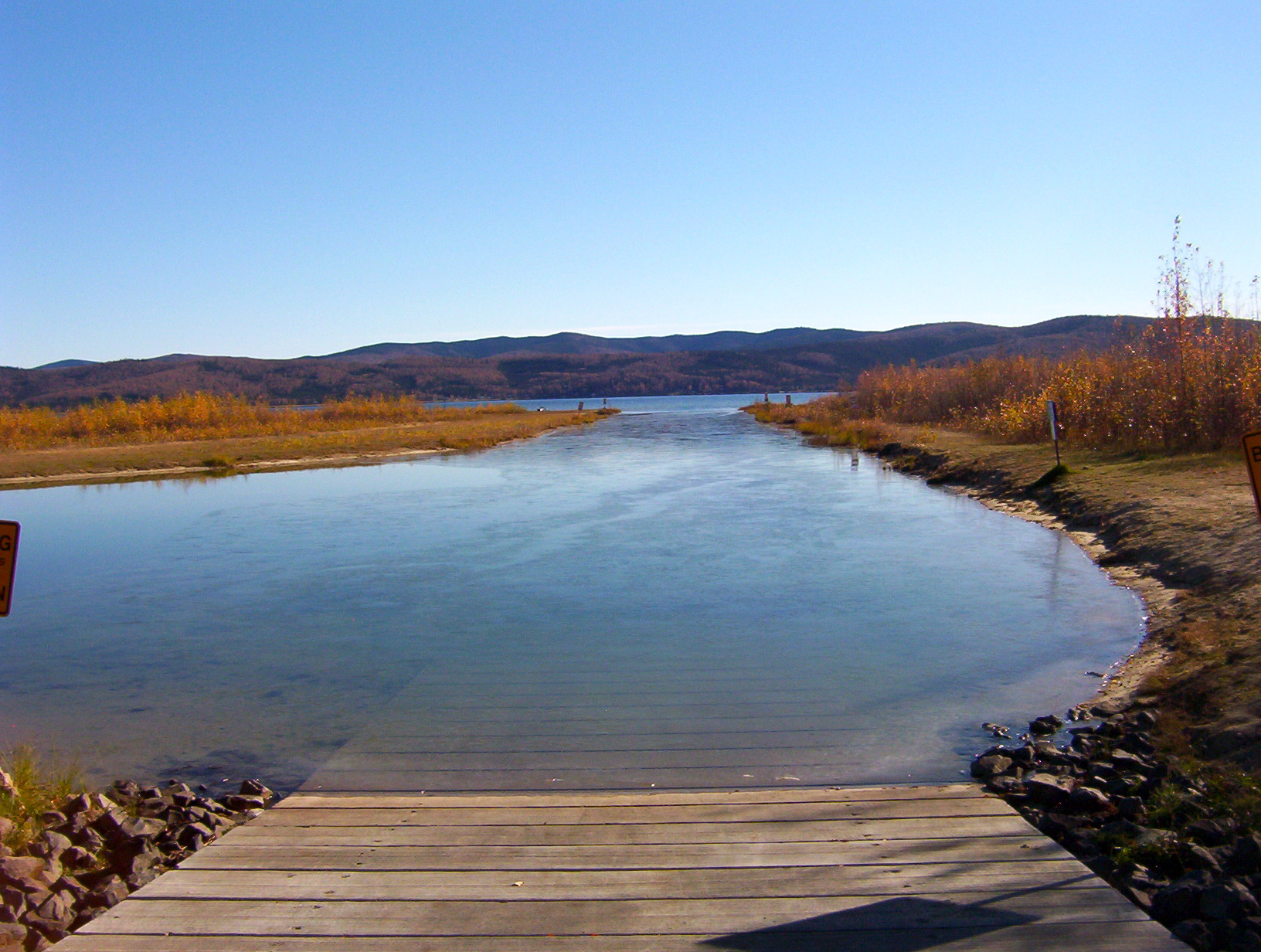 boat launch at Harding Lake, about 40 miles south of Fairbanks, Alaska